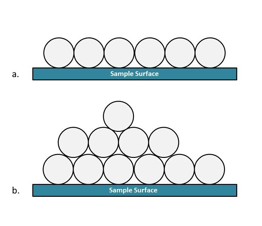 Adsorption of Gases in Multimolecular Layers